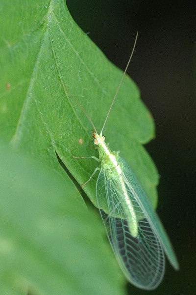 Picture taken in Commanster, Belgian High Ardennes . Species: Chrysoperla carnea